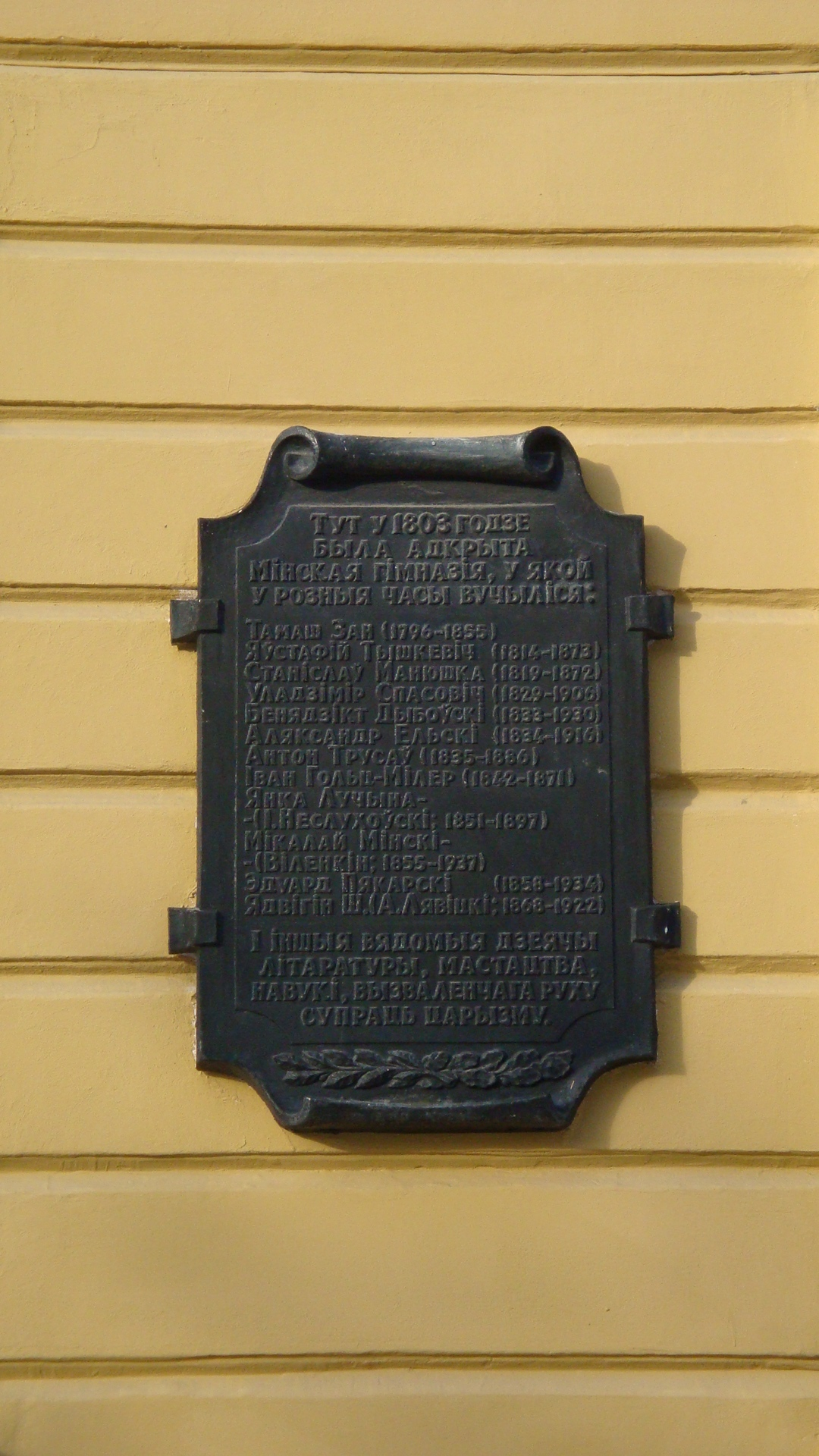 Memorial plaque on ex-building of Minsk provincial gymnasium. Photo 2008 AD